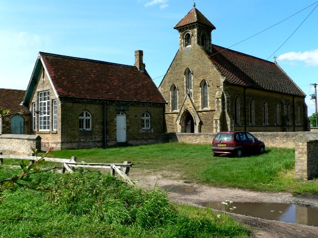 St John's parish church (right) and former school (left), North Cliffe, East Riding of Yorkshire, England, seen from the southeast.